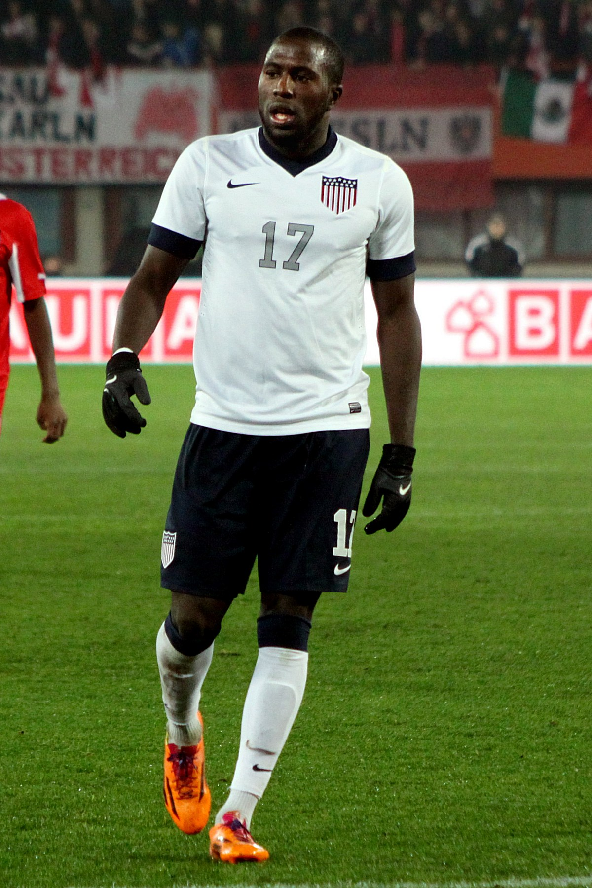 Friendly-match Austria vs. USA (1:0) in the Ernst-Happel-Stadion in Vienna at 2013-03-22. – The photo shows Jozy Altidore (USA).